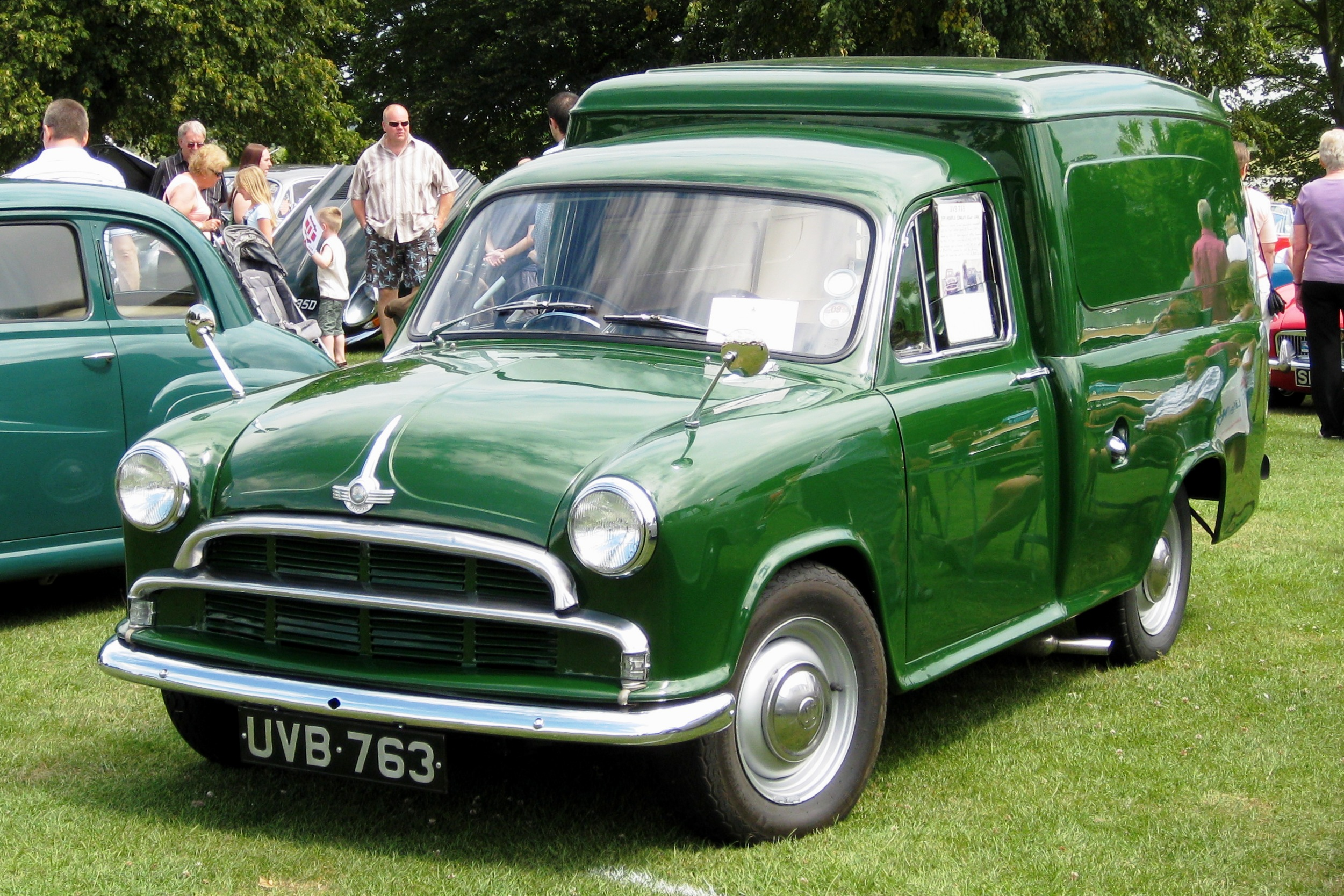 Morris ½-ton Series III Van of 1959. The example shown was first registered in Jan 1959 and has an 1800cc engine, according to tax office